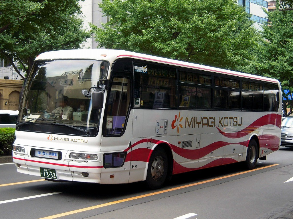 Miyakoh bus Mitsubishi Fuso Aero Bus(U-MS826P)Highwaybus Sendai-Kawasaki town(Miyagi)